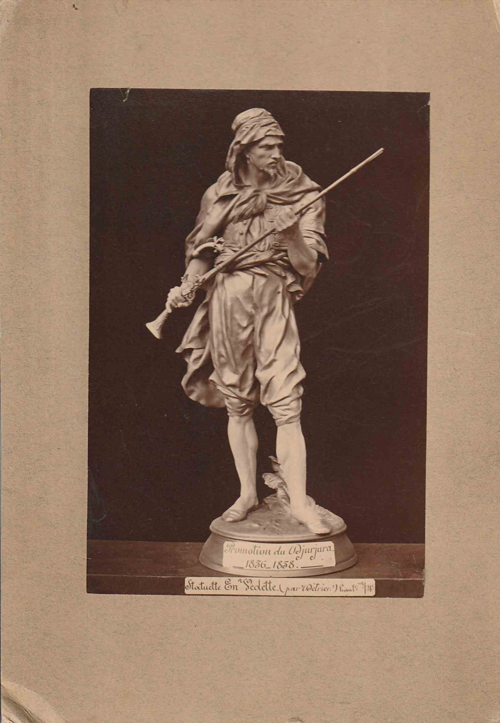 statue the promotion Djurjura of Ecole Saint-Cyr